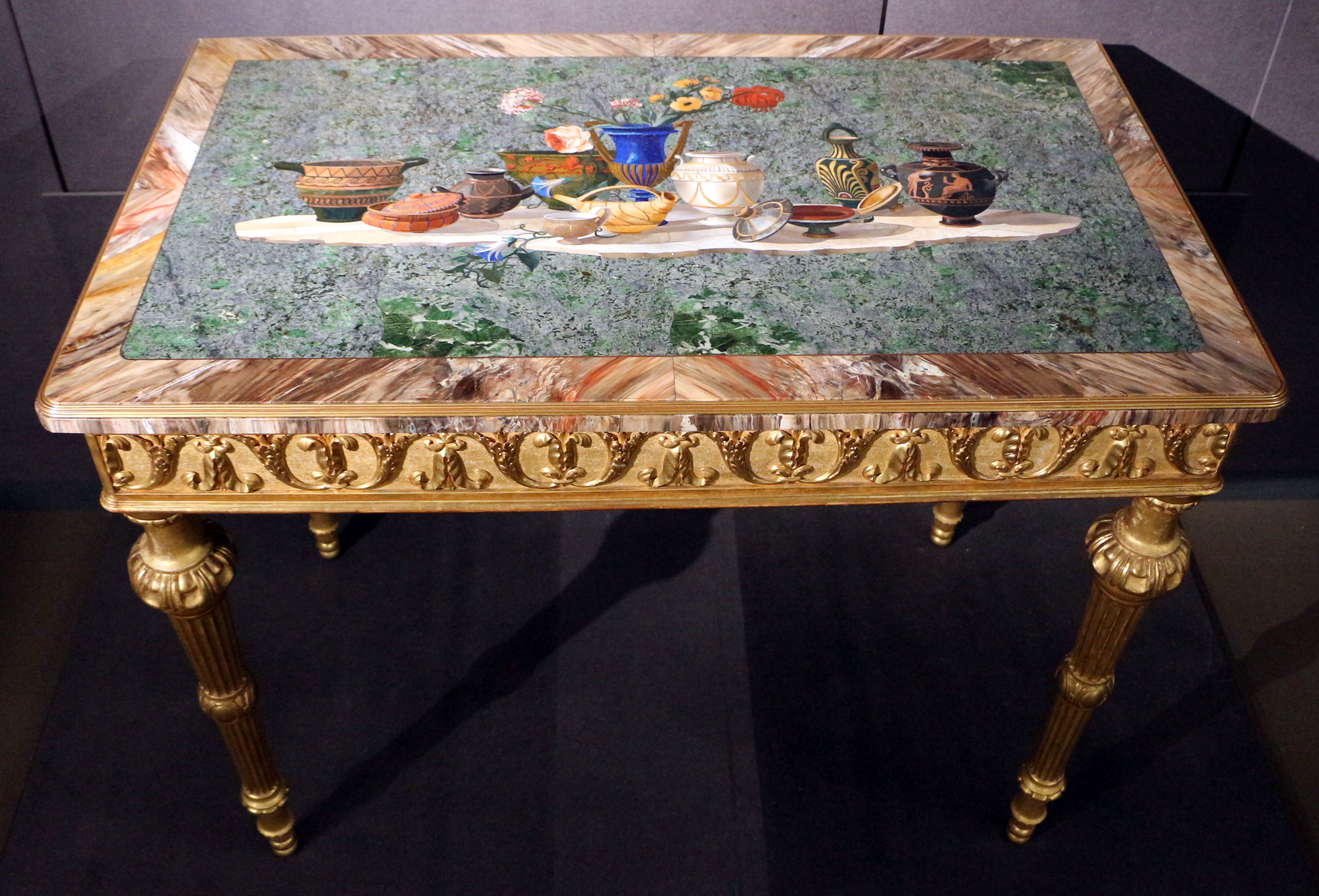 Winckelmann, Firenze e gli Etruschi (2016 exhibition)